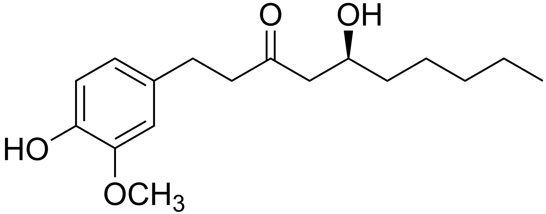 chemical structure of gingerol